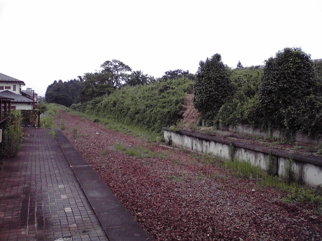 This is a former platform for Kashima Railway Ishiokaminamidai Station.